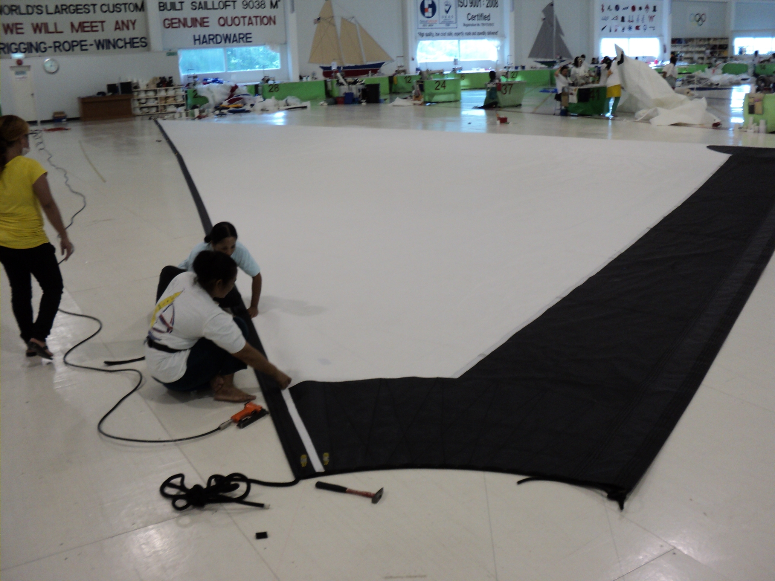 This detail of a large crab claw sail in production demonstrates how the sail is constructed with zero camber. The edge of the sail to the right is the foot or bottom of the sail and a pocket was designed into the sail to slot a spar. The edge to the left on most crab claw sails would contain a second spar. In this configuration a bolt rope is used as if it were a spar and the second spar is not needed. The bolt rope runs from the bow to the mast that it is located at the back of the boat. mast-aft Trimaran Hot Buoys designed by Philip Maise